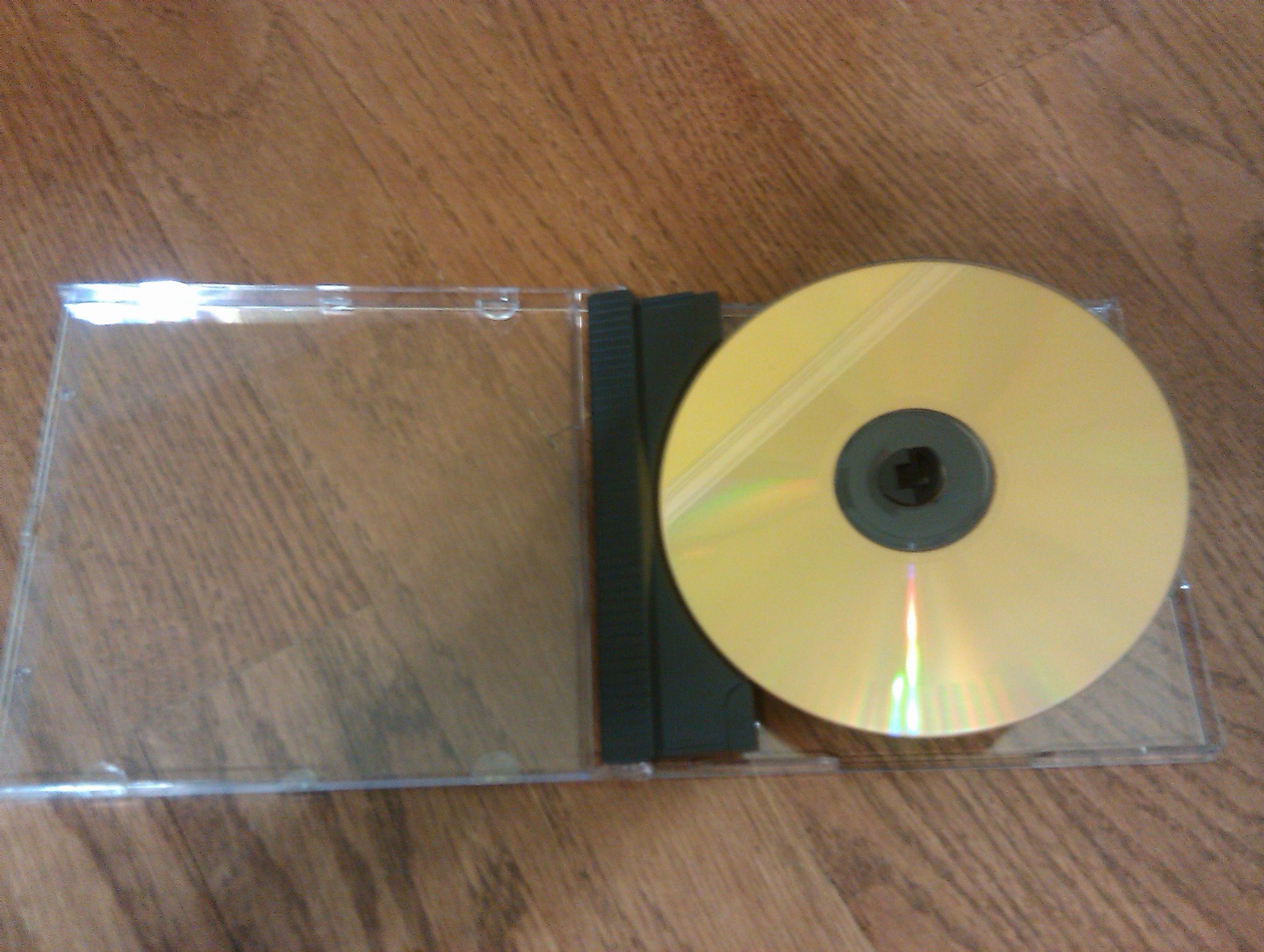 A gold CD in a lift-lock case. The read side, which would normally be facing down, has been placed upwards to show the gold. The reflection on the disc is the joint between a ceiling and a wall.